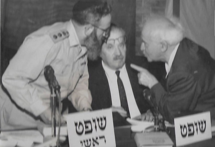 Shlomo Goren, Feivel Meltzer & David Ben-Gurion